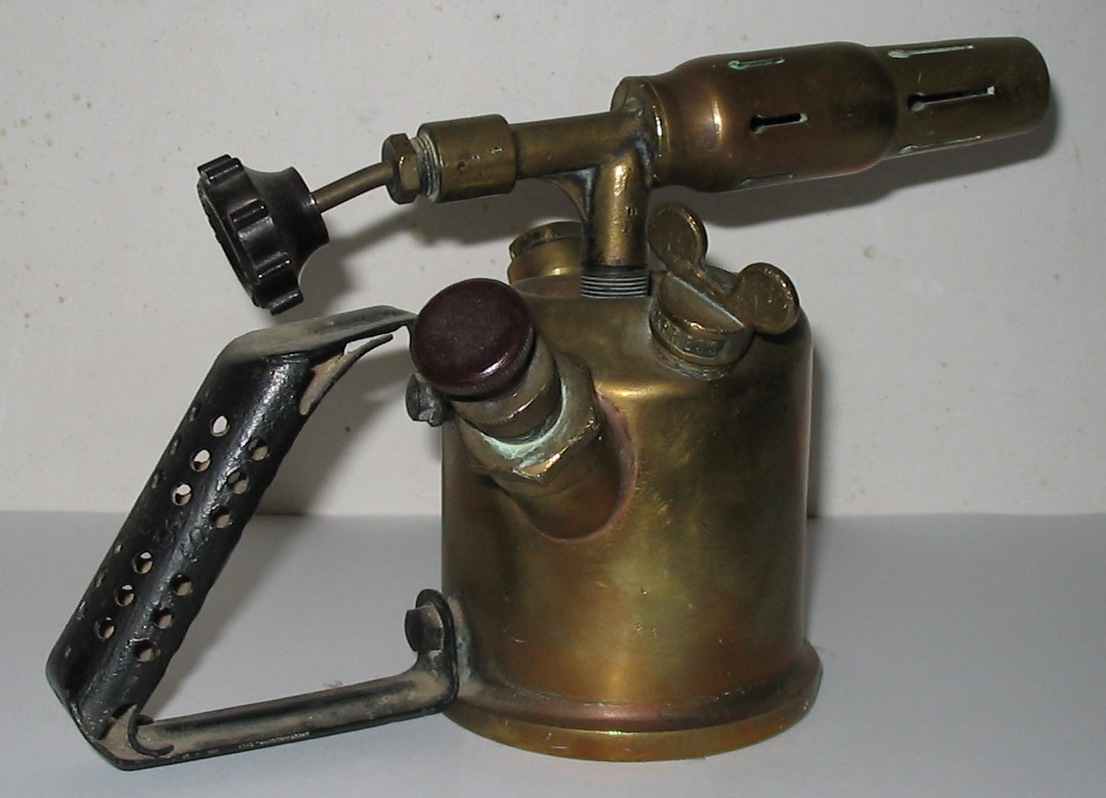 A old Blowtorch/blowlamp.